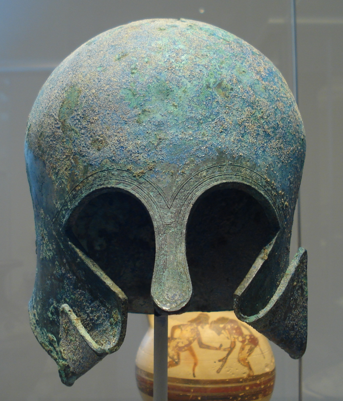 Corinthian helmet. Bronze. Greek, 7th-6th century BC.